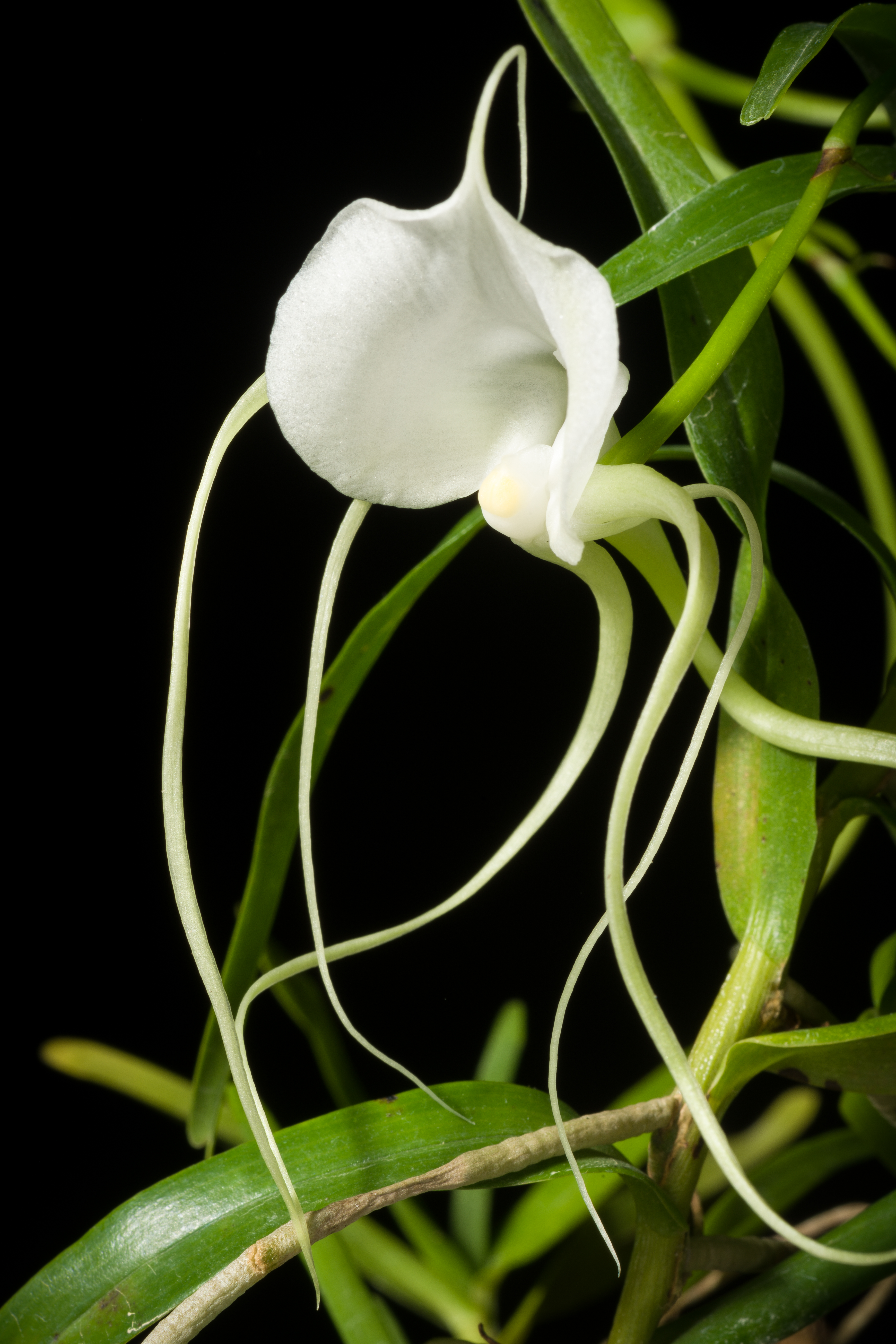 SECTION Arachnangraecum Distribution: Comoros, Réunion (29 COM REU) Lifeform: Epiphytic cham. Homotypic synonyms Mystacidium germinyanum (Hook.f.) Rolfe, Orchid Rev. 12: 47 (1904) Arachnangraecum germinyanum (Hook.f.) Szlach., Mytnik & Grochocka, Biodivers. Res. Conservation 29: 11 (2013) Heterotypic synonyms Angraecum ramosum subsp. bidentatum H.Perrier, Fl. Madagasc. 49(2): 301 (1941)